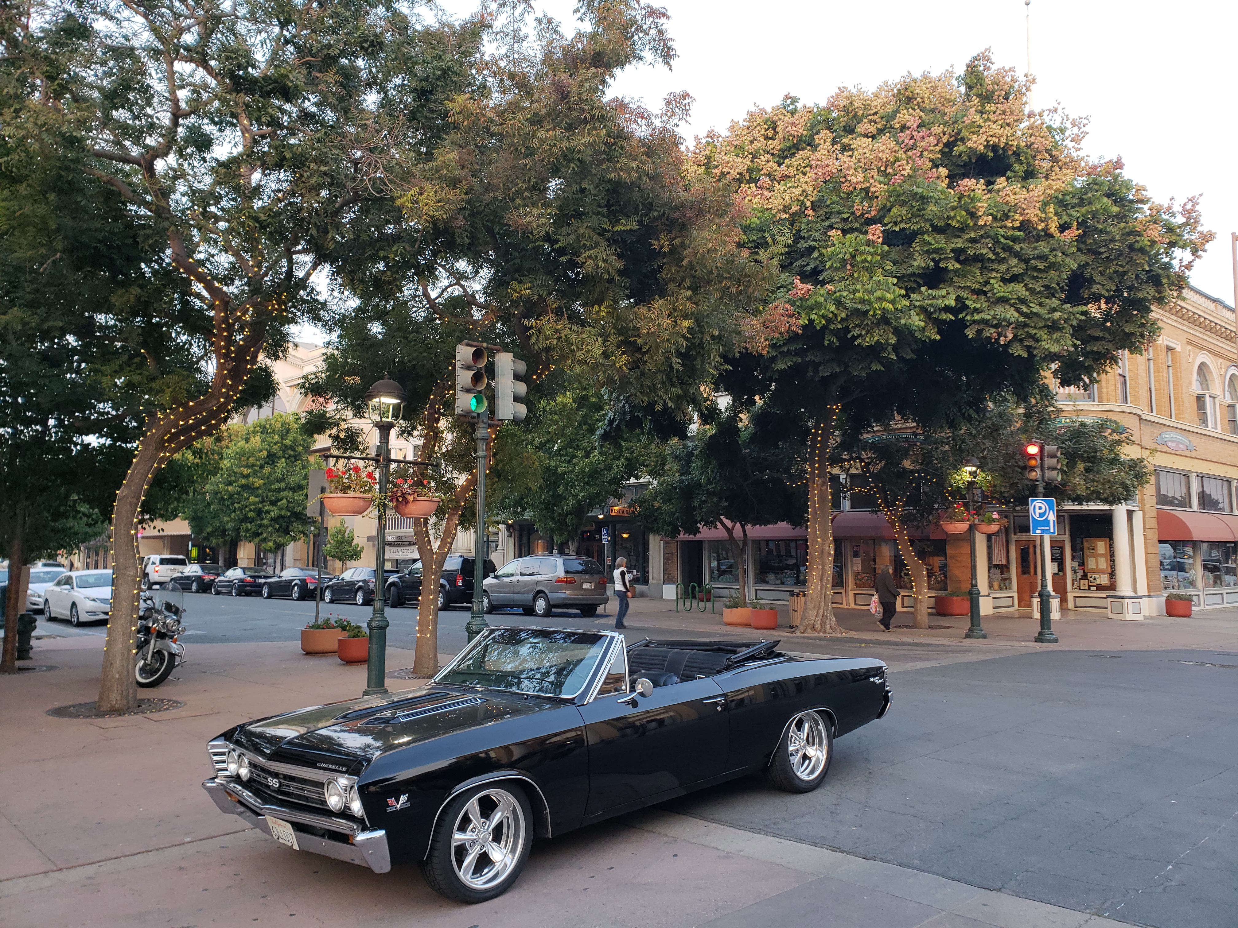 Downtown Street scene in December with trees, a vintage car and holiday lights.